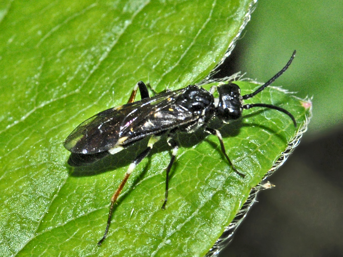 Allantus species. Bogliasco, Genova, Italy